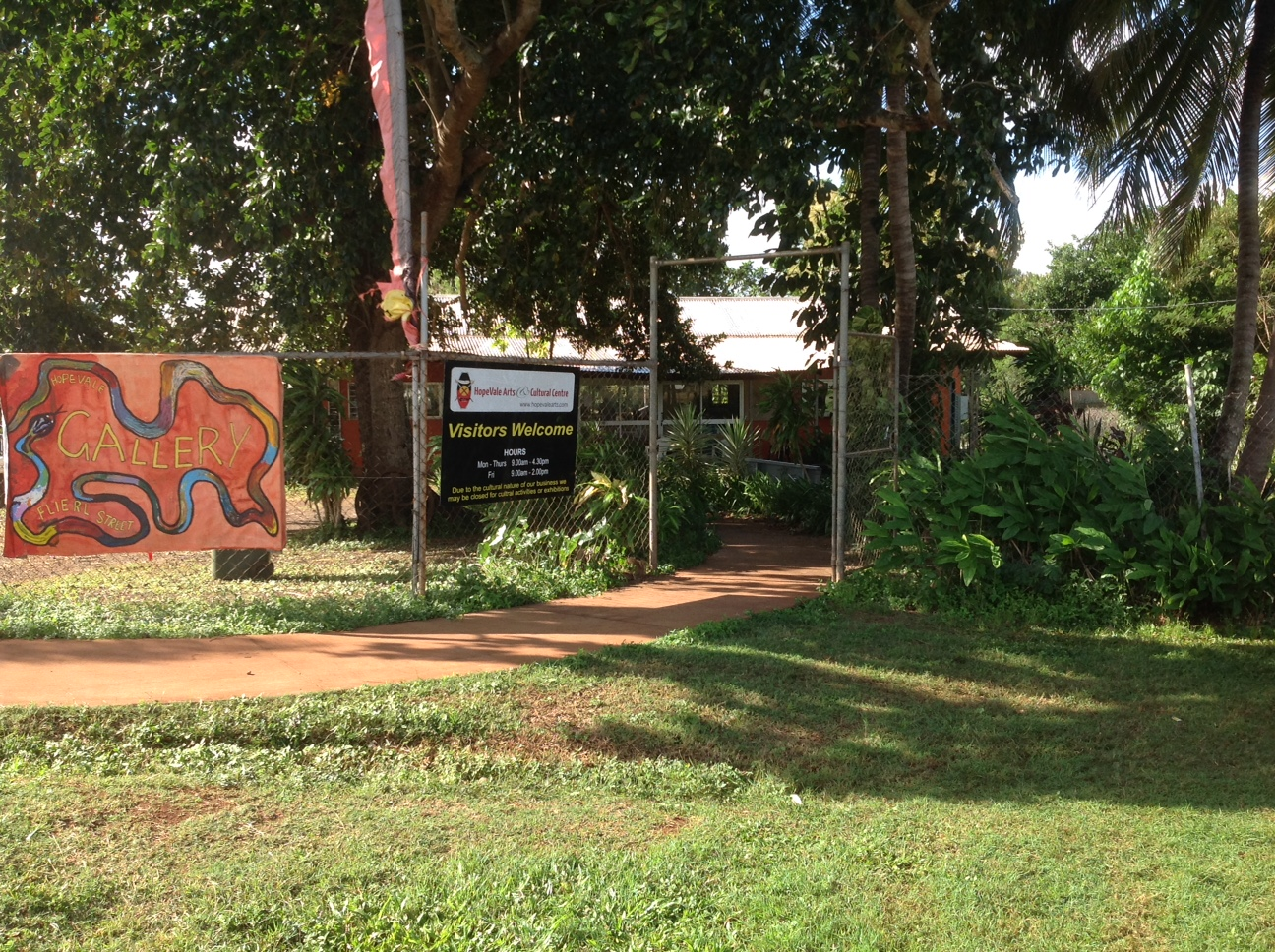 The entrance to the HopeVale Arts and Cultural Centre in Hopevale, Far North Queensland.